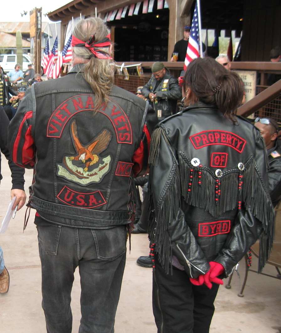 2nd. Annual Arizona Military Hero's Poker Run